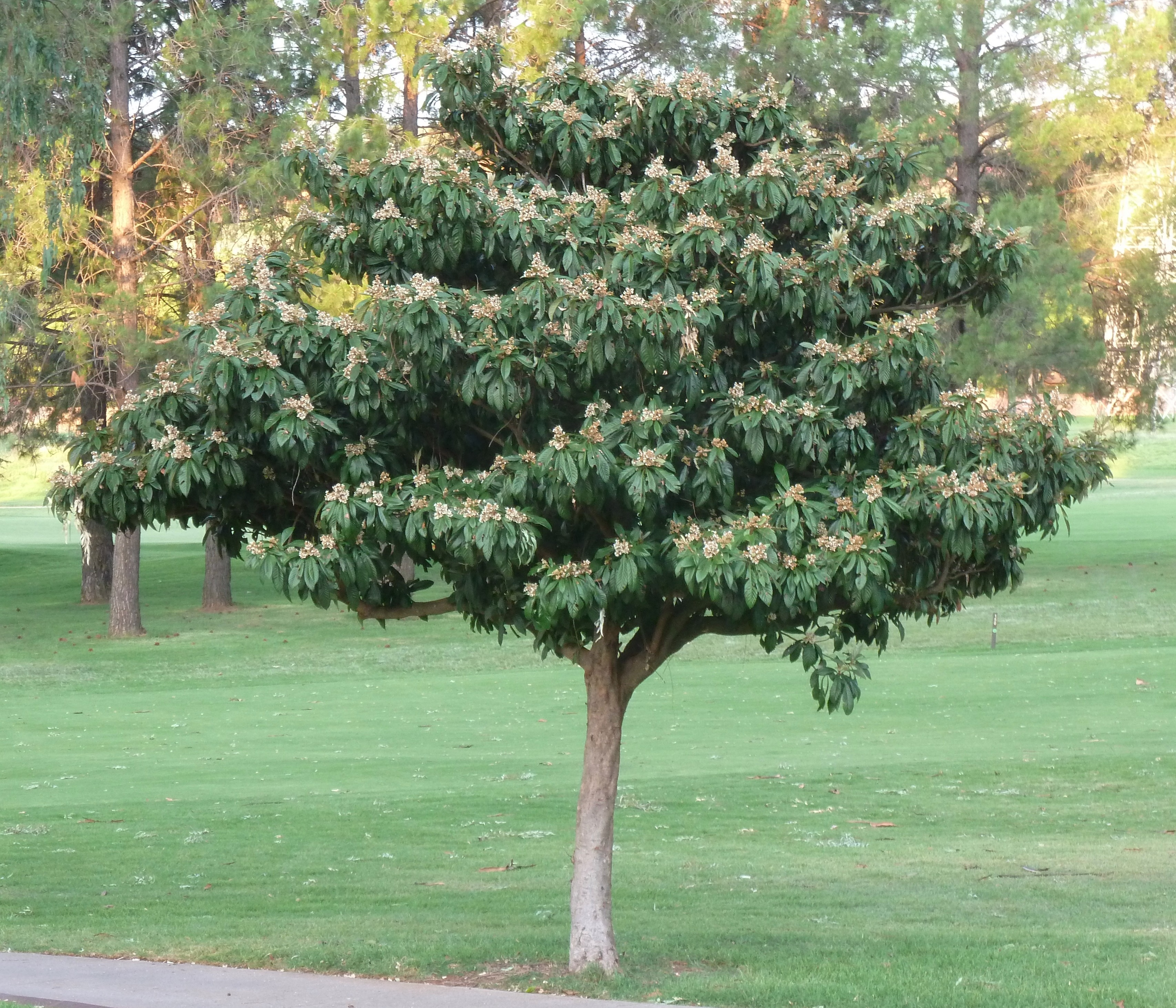 Loquat tree at the Wingate Park country club in Pretoria